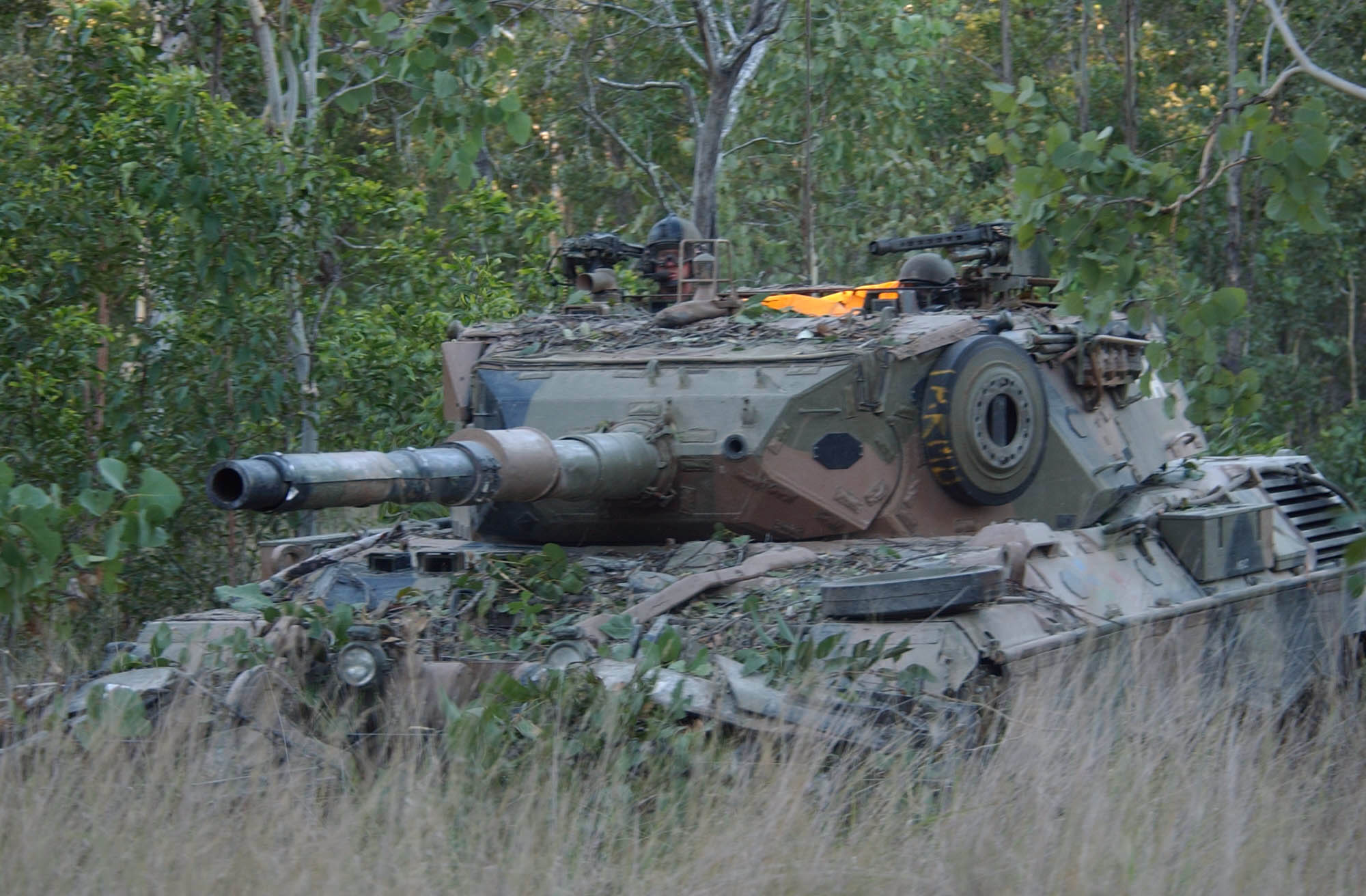 Shoalwater Bay Training Area, Queensland, Australia (June 25, 2005) -- A Leopard AS1 Gun Tank from 1st Armored Regiment (1ARMD) participates in a simulated battle during exercise Talisman Saber 2005. Talisman Saber is a four-week biennial exercise to conduct collective training and practice inter-operability between U.S. and Australian forces while further developing the capability to undertake joint, combined operations and helping to build regional security. More than 17,000 personnel from Navy, Army, Air Force, Marine and Special Forces units are participating in the exercise, a merger of the Tandem Thrust and Crocodile series of exercises.